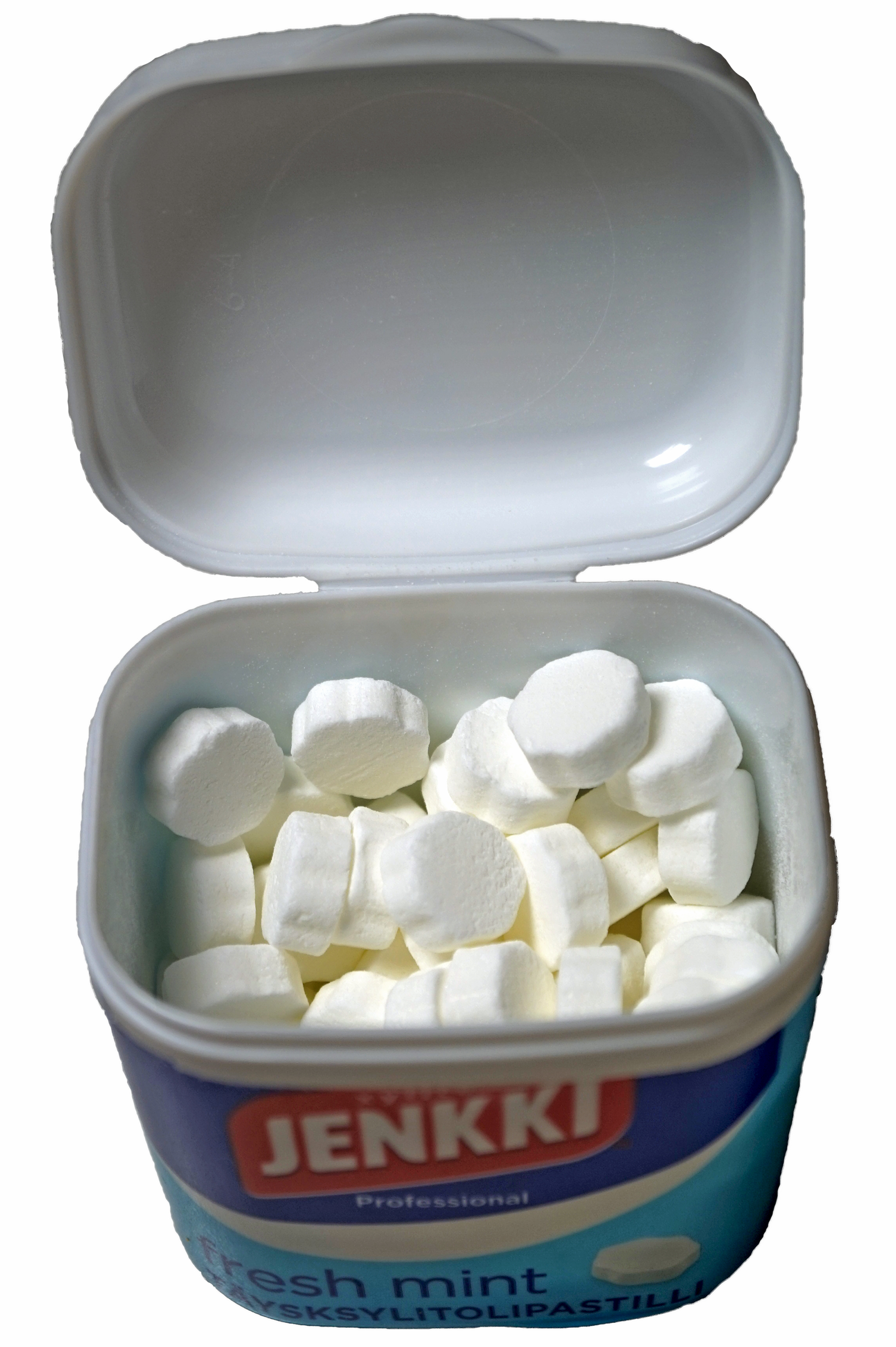 Jenkki Professional fresh mint Xylitol pastilles with D vitamin.